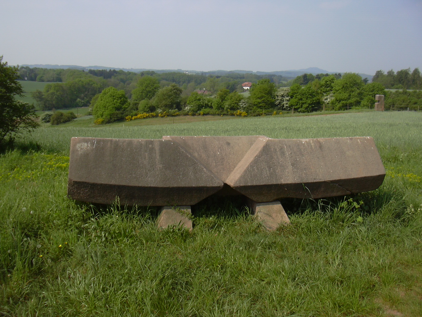 Route of the Sculptures, St. Wendel: Horizontal Development (Takera Narita, 1971)